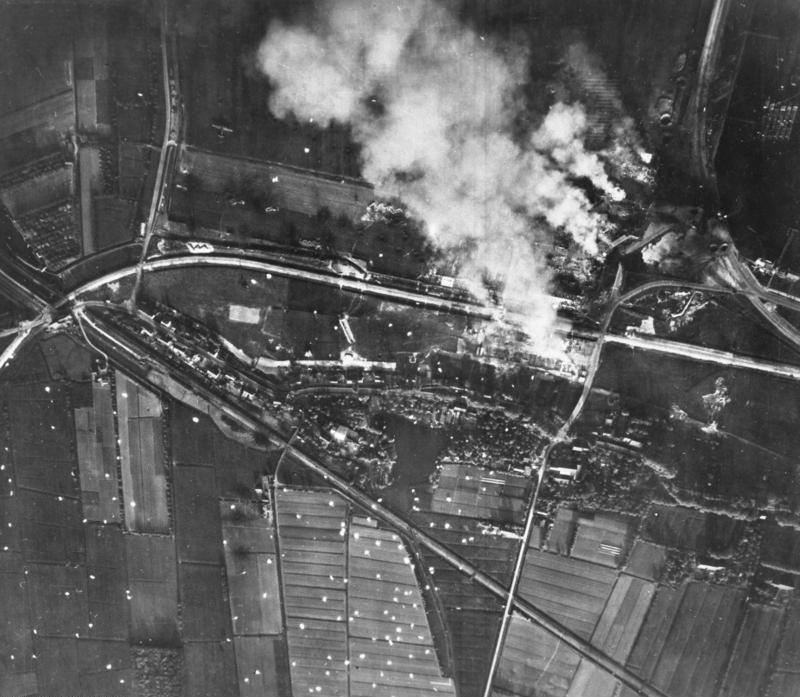 Rotterdam Airport, Aerial photograph of burning airport